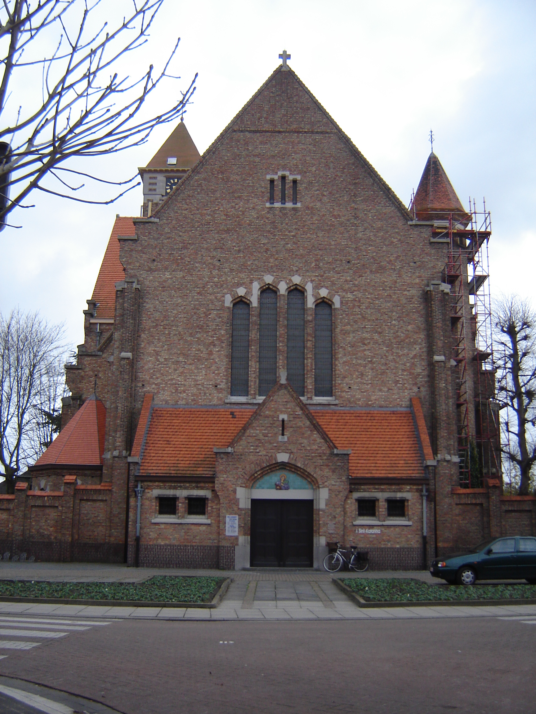 Church of Saint Catherine in Assebroek. Assebroek, Brugge, West Flanders, Belgium.